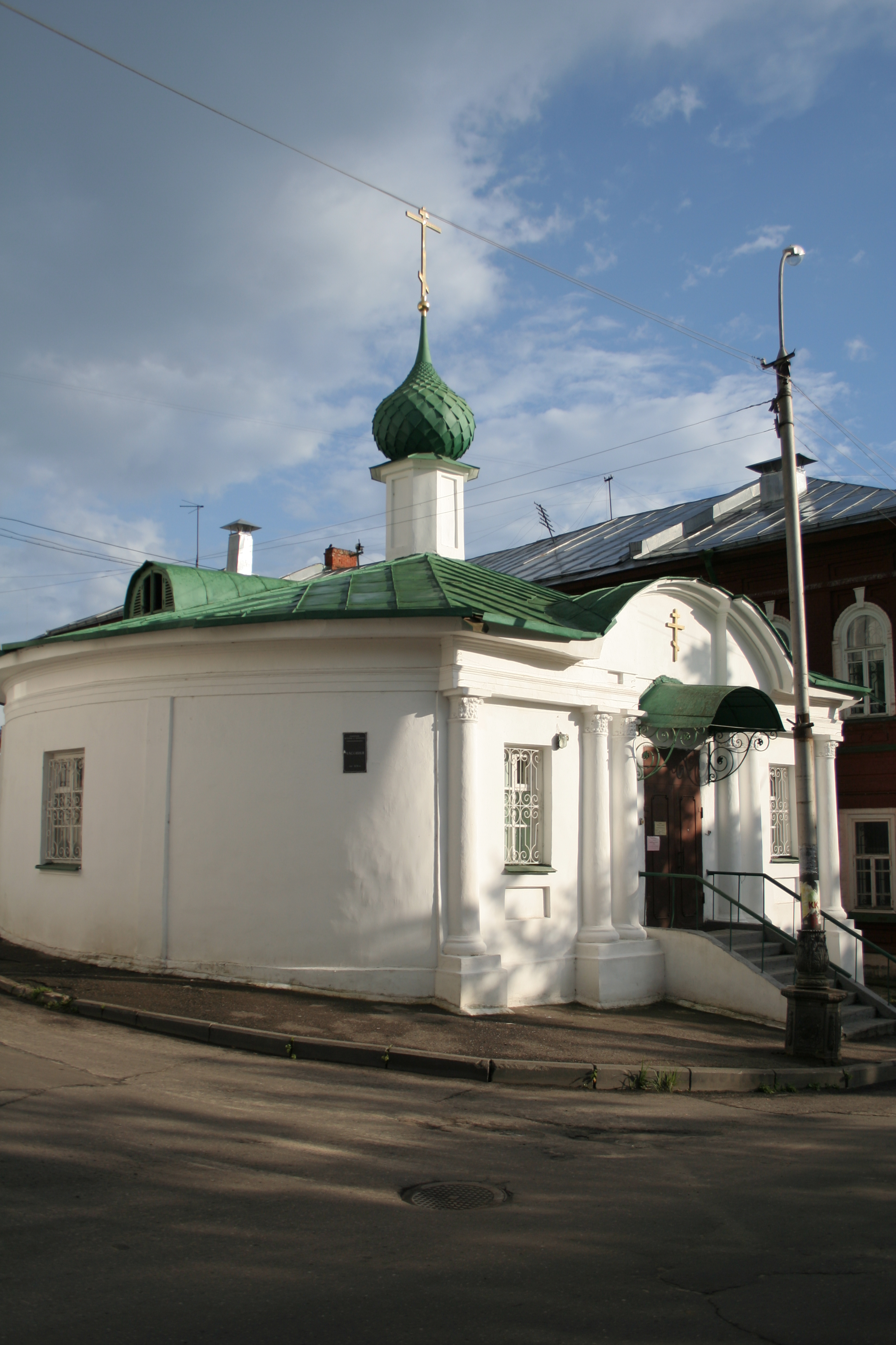 Nicholas Chapel at the Trade Rows in Kostroma, Russia.